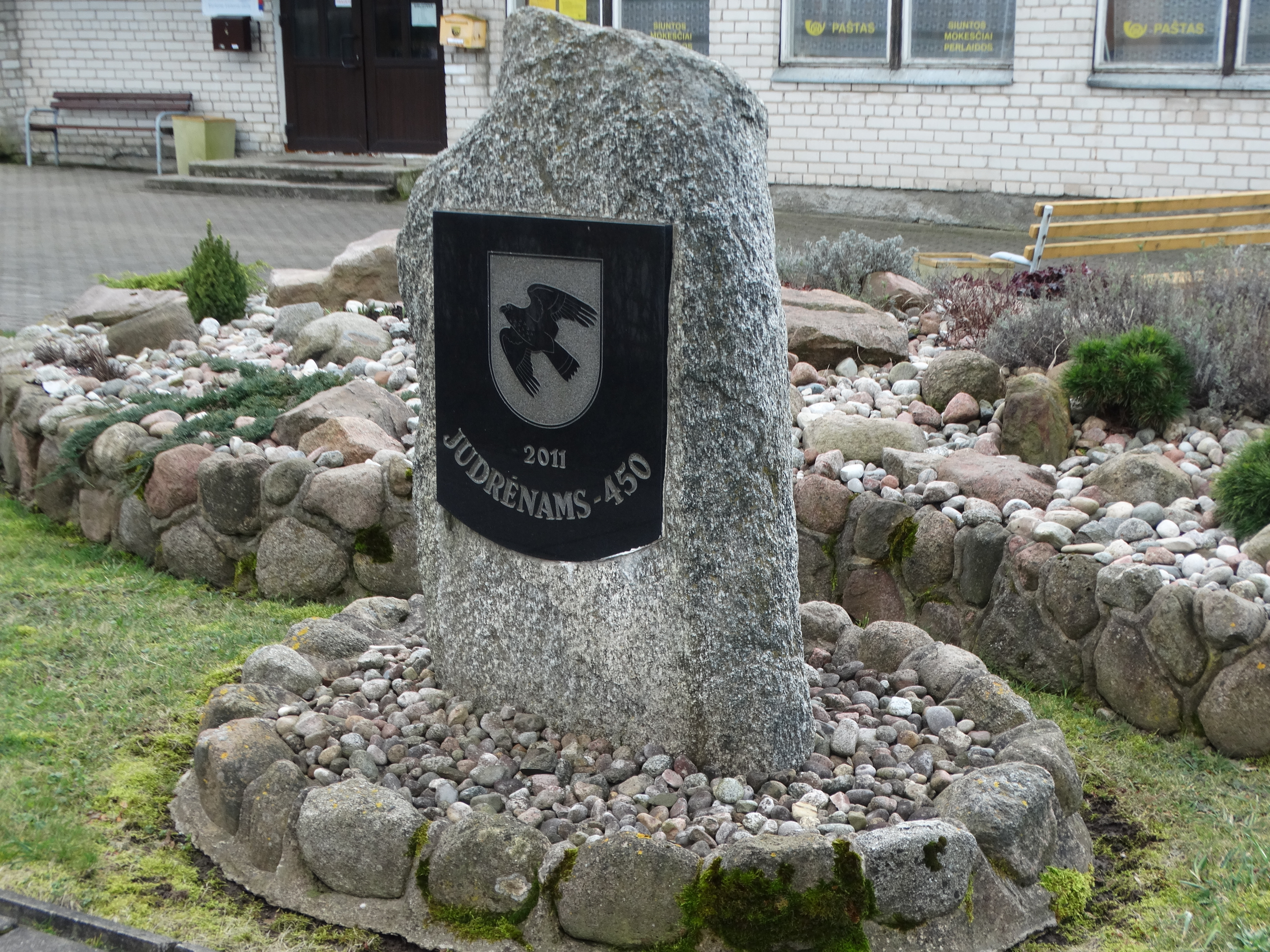 Memorial stone, Judrėnai, Klaipėda District. Lithuania